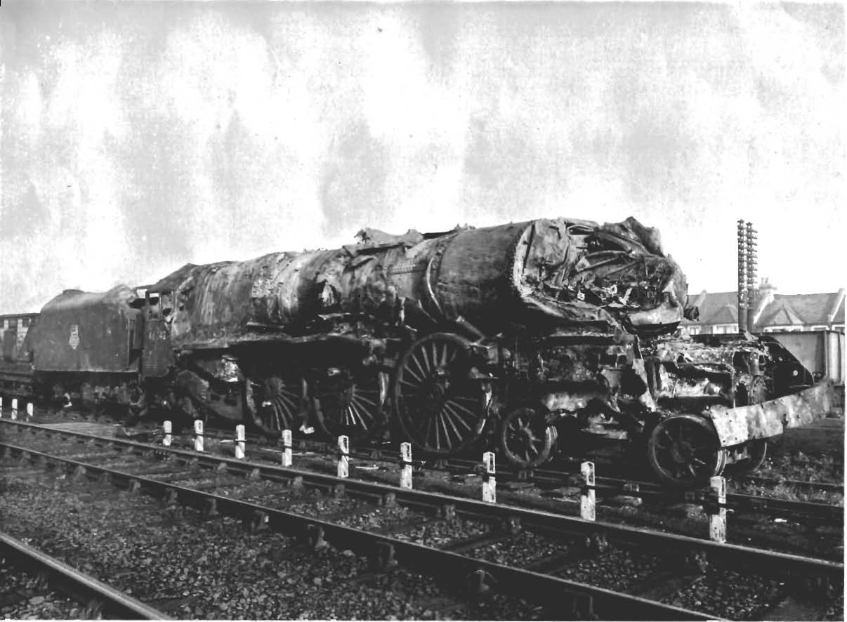 The badly damaged locomotive of the Perth express train No. 46242 Coronation Class City of Glasgow which was involved in the Harrow and Wealdstone train crash on 8 October 1952. It later went on to be rebuilt and returned to service.